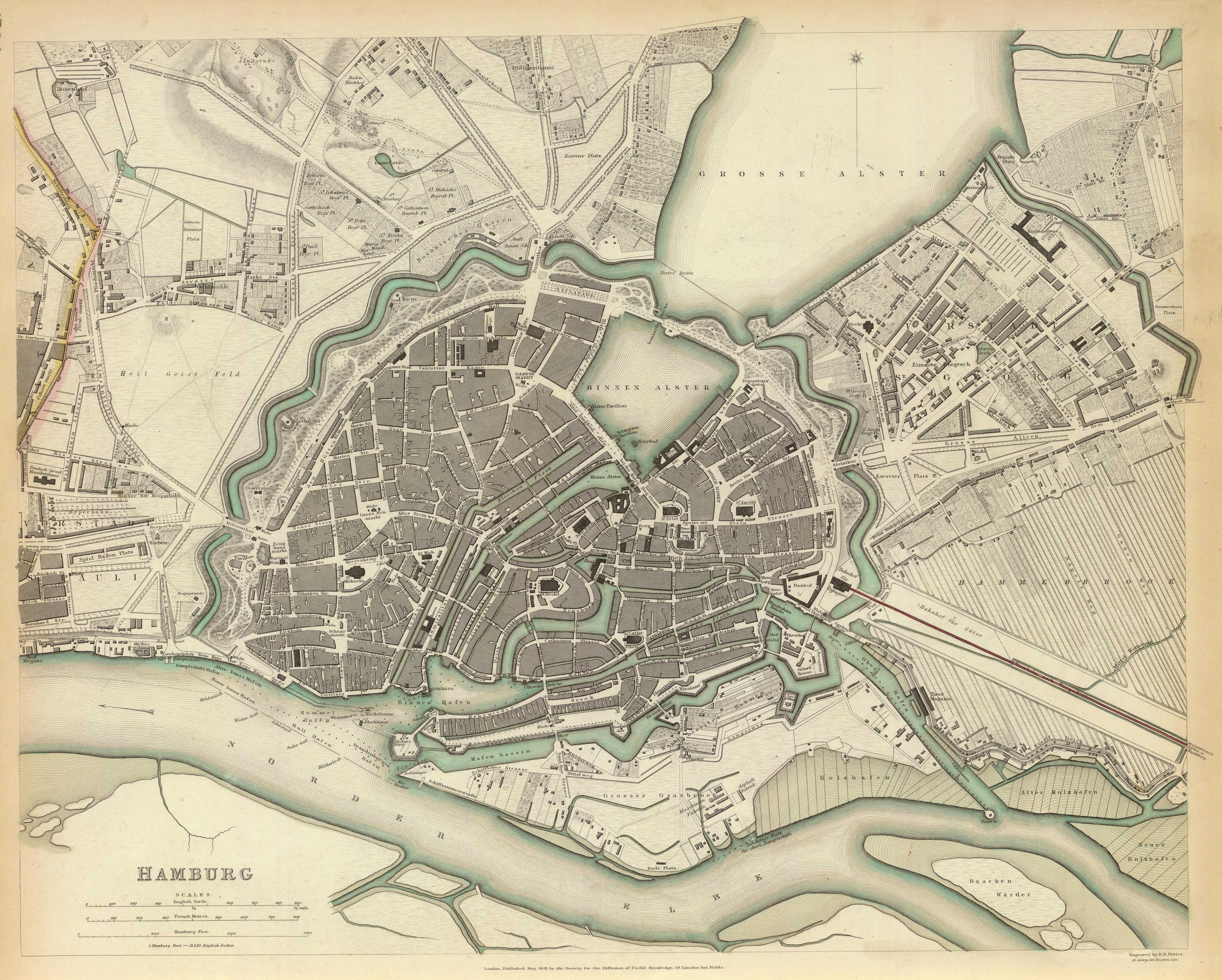 Hamburg Germany 1841